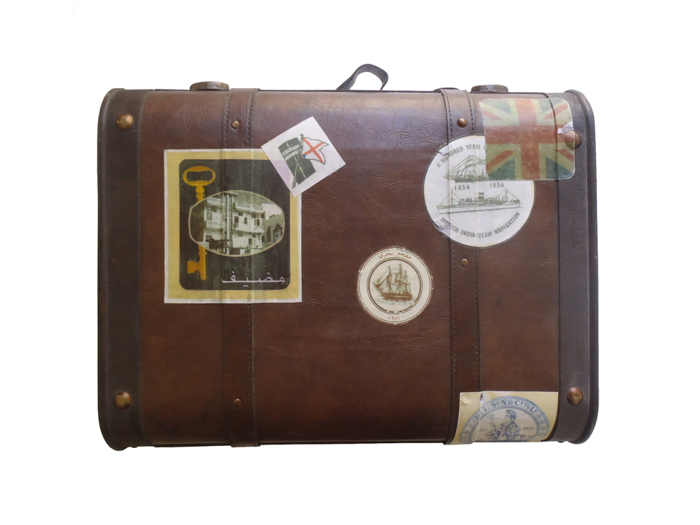 An artwork created by Maisoon Al Saleh by using Mixed Media